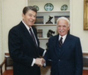 Ronald Reagan and Daniel J. Terra in Oval Office